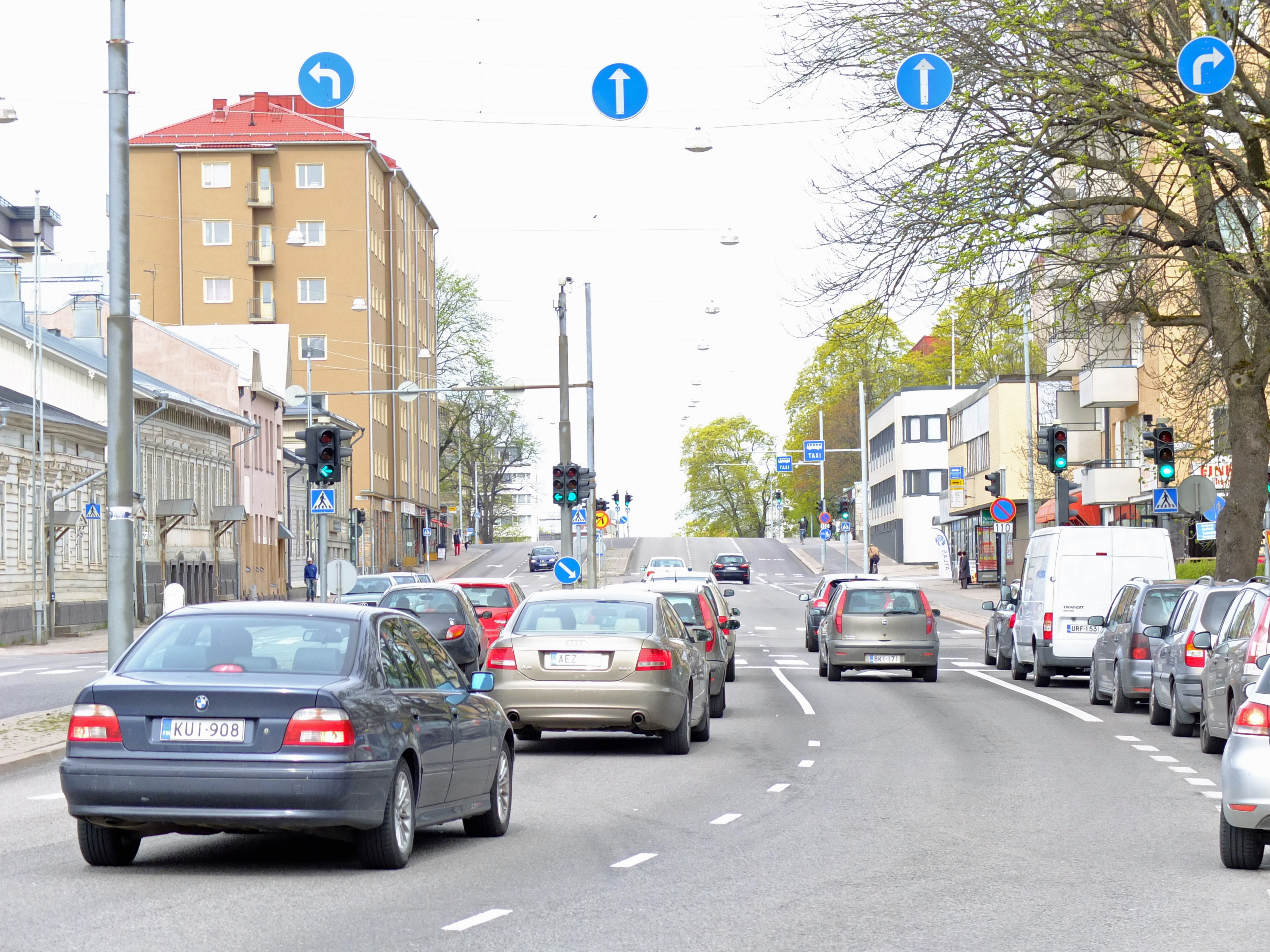 Looking northwest along Uudenmaankatu street near Kupittaanpuisto park, at the intersection of Itäinen Pitkäkatu. May 2014.